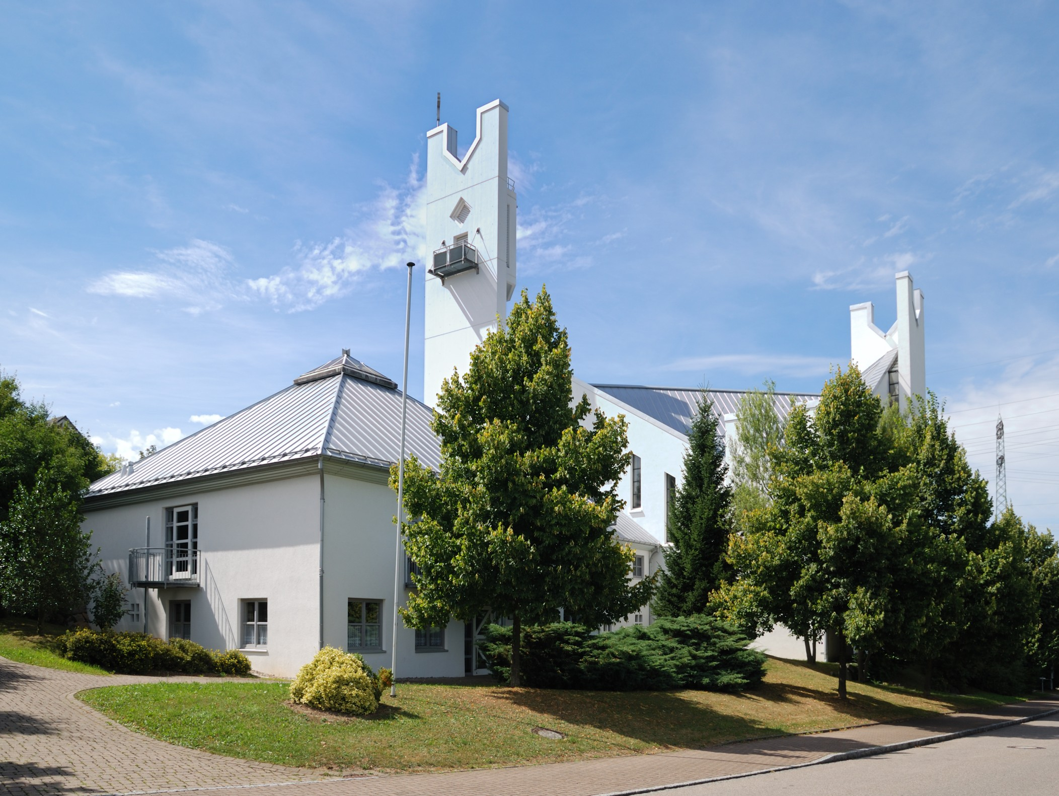 Rheinfelden: Saint Michaels Church, seen from southeast